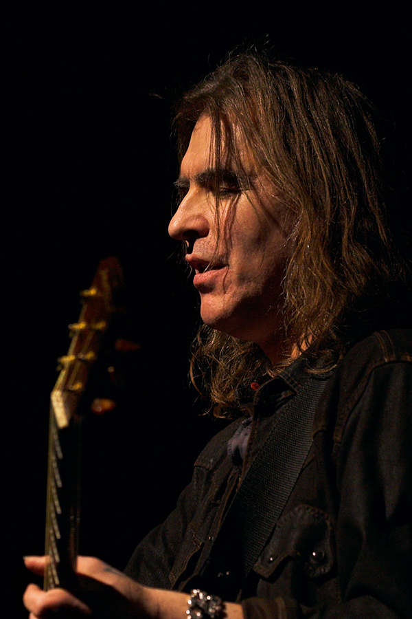 Photo of Justin Sullivan in Berlin, Kesselhaus, 24.01.2009